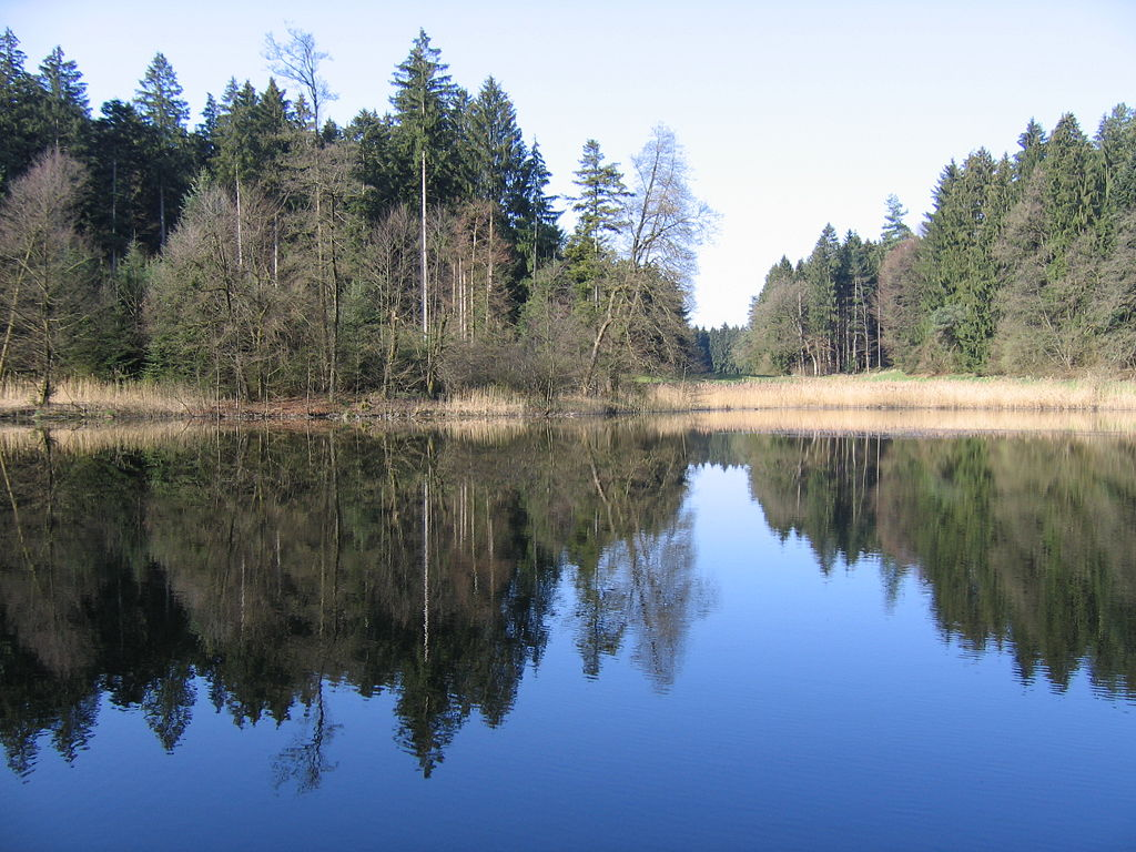 Germany - Baden-Württemberg - Bodenseekreis - Neukirch: nature reserve "Holzweiher"